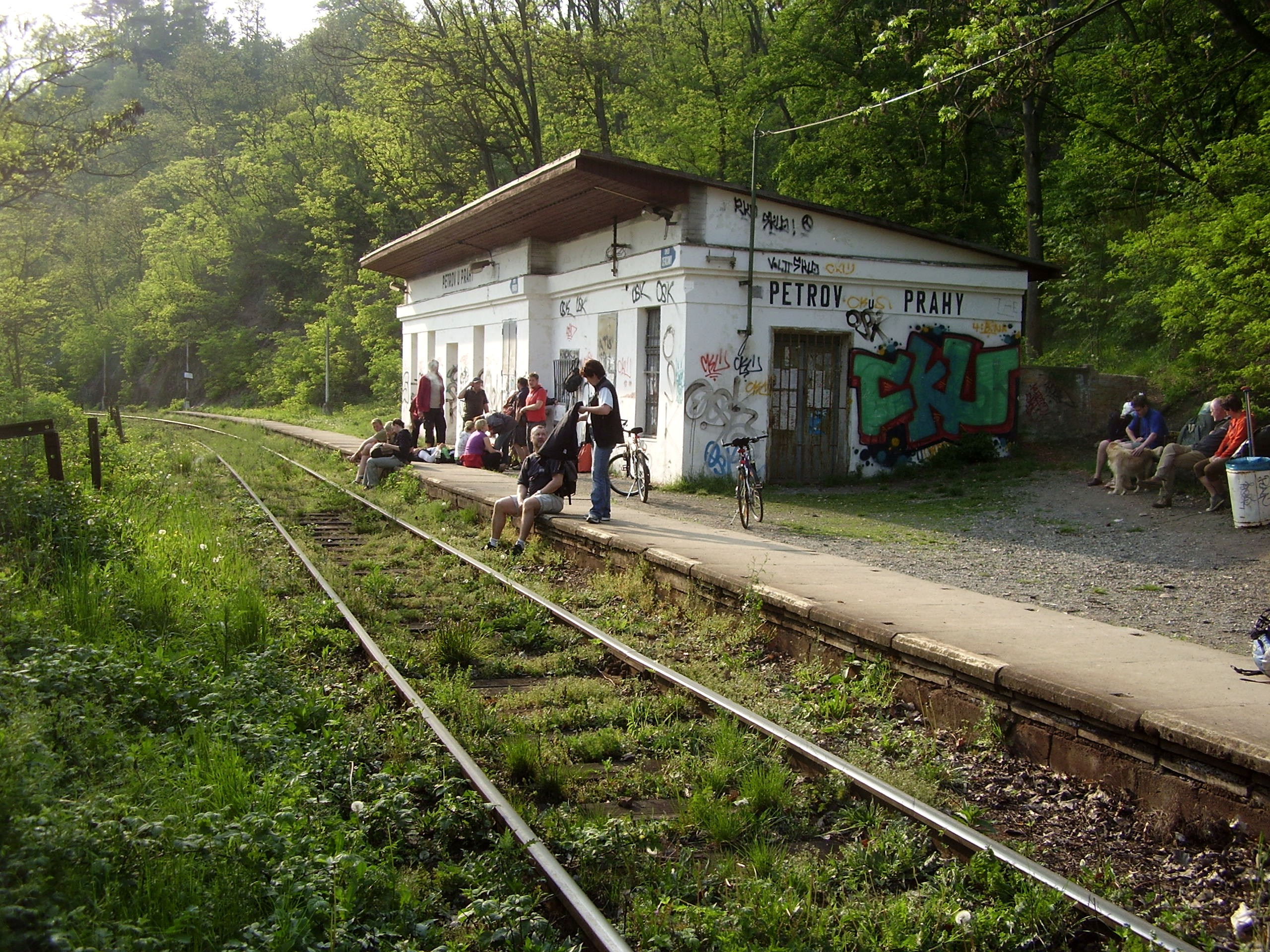 Train station Petrov u Prahy